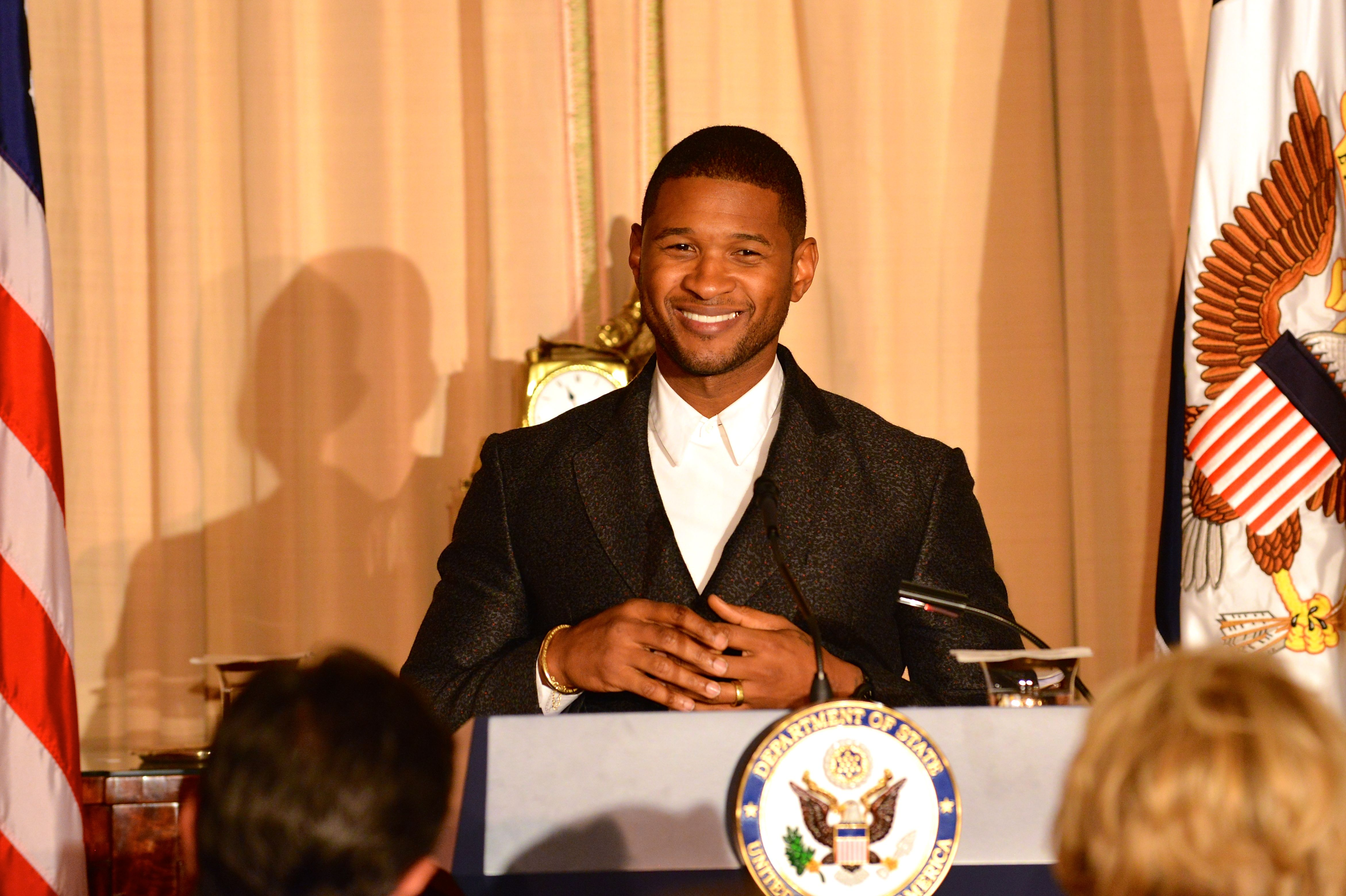 American singer, songwriter, and actor Usher delivers remarks at the U.S. Department of State in Washington, D.C., on December 5, 2015. [State Department photo/ Public Domain]